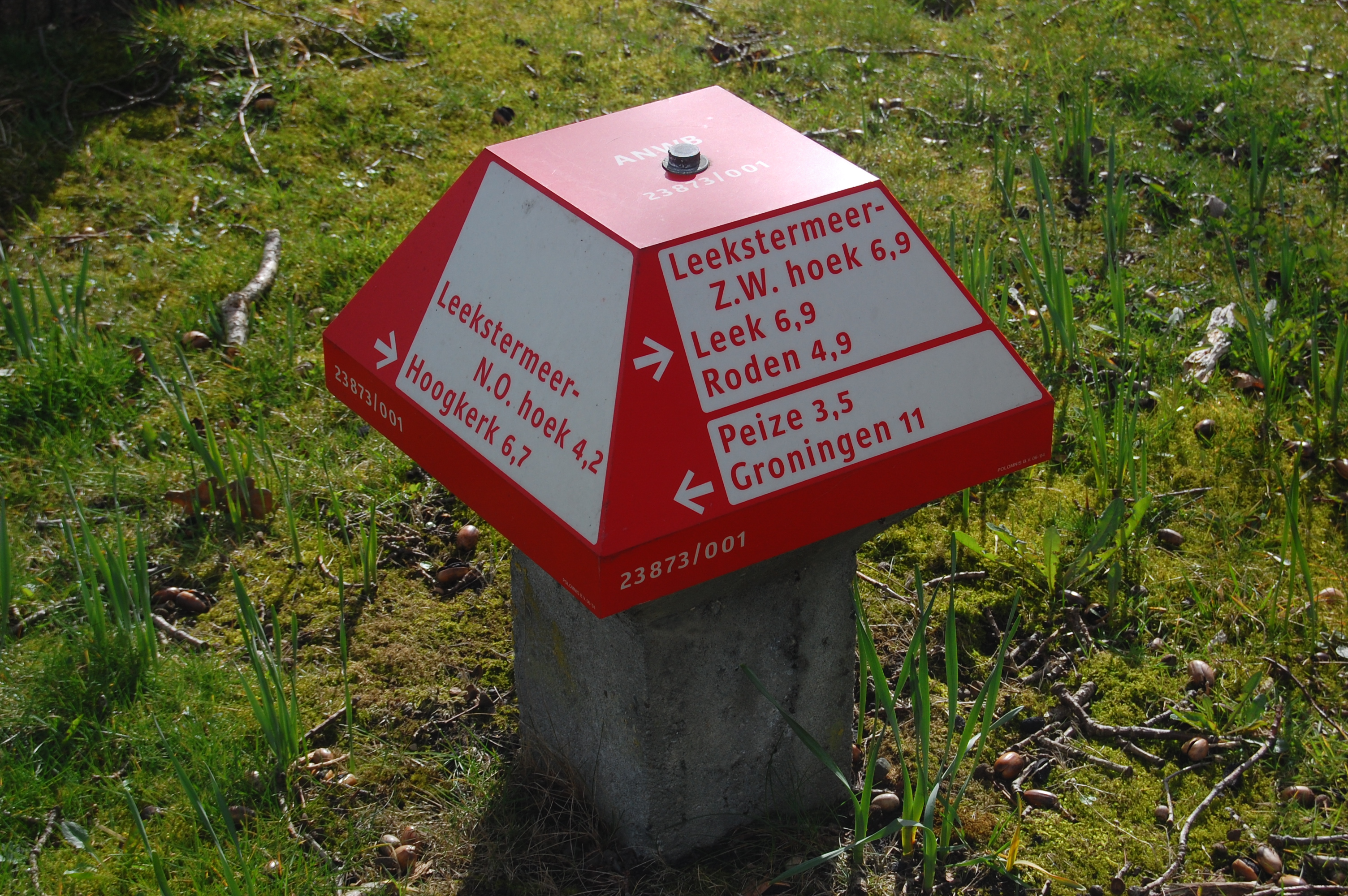 Mushroom-shaped road sign for cyclists in Roderwolde, the Netherlands